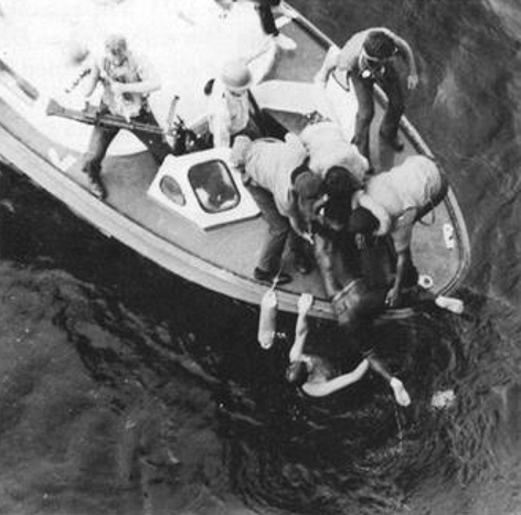 The gig of the U.S. Navy guided missile destroyer USS Henry B. Wilson (DDG-7) rescues U.S. Air Force personnel on 15 May 1975. The gig rescued crews of two USAF helicopters shot down in the attempt to rescue the SS Mayaguez and her crew that had been seized by Cambodian Khmer Rouge on 12 May.